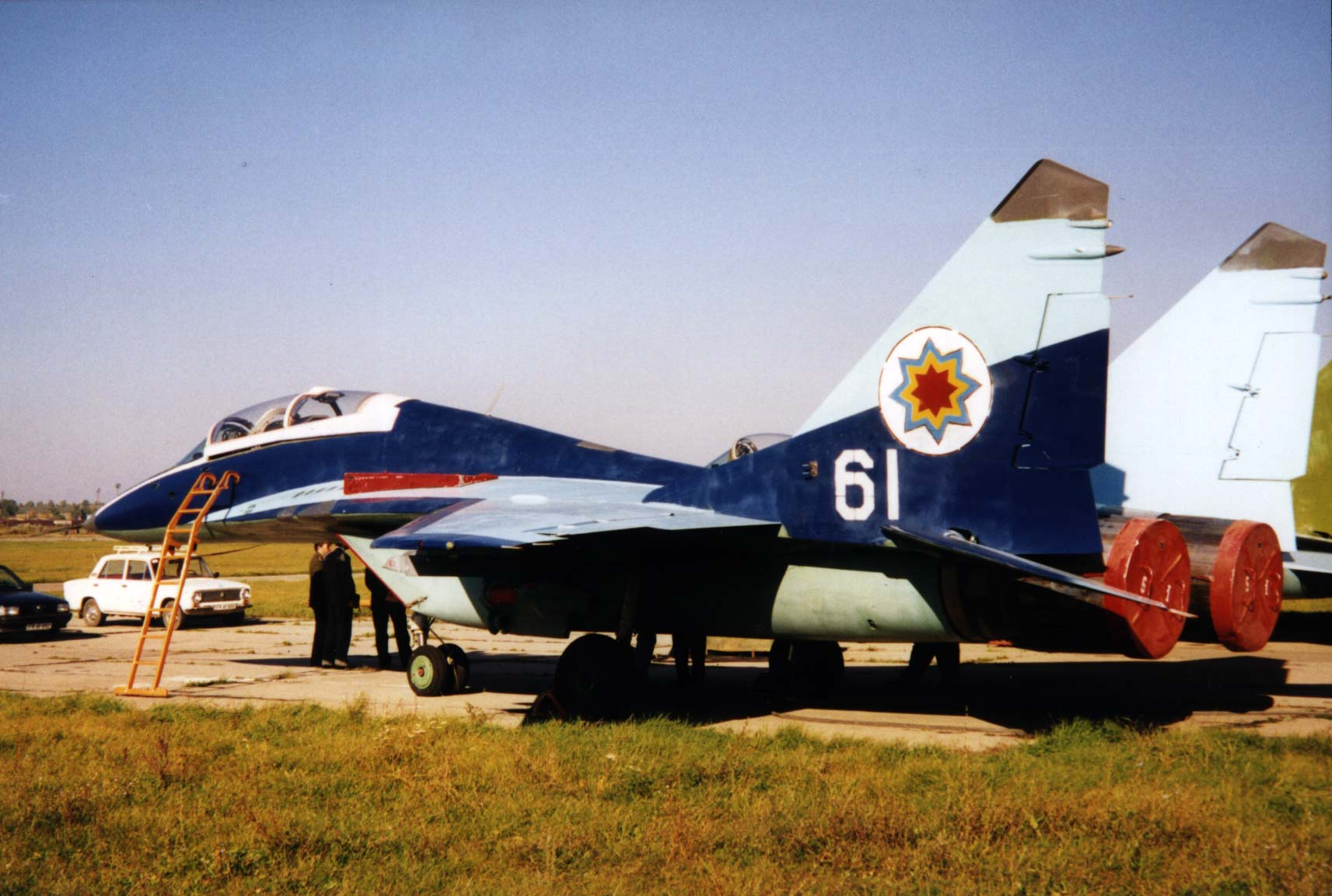 A MiG-29B trainer is readied for air shipment from Moldova to the United States on Oct. 8, 1997. The Department of Defense of the United States of America and the Ministry of Defense of the Republic of Moldova recently reached an agreement to implement the Cooperative Threat Reduction accord signed on June 23, 1997, in Moldova. This agreement authorized the United States Government to purchase nuclear-capable MiG-29 fighter planes from the Government of Moldova. This is a joint effort by both governments to ensure that these dual-use military weapons do not fall in to the hands of rogue states.